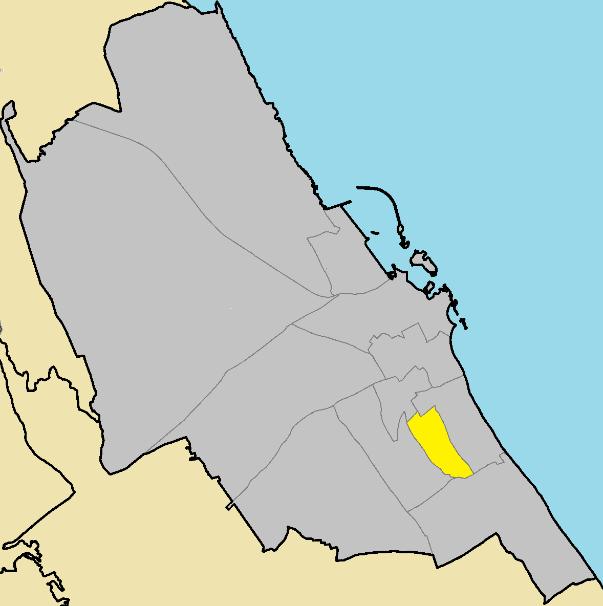 Stavros in Famagusta Municipality (de jure).